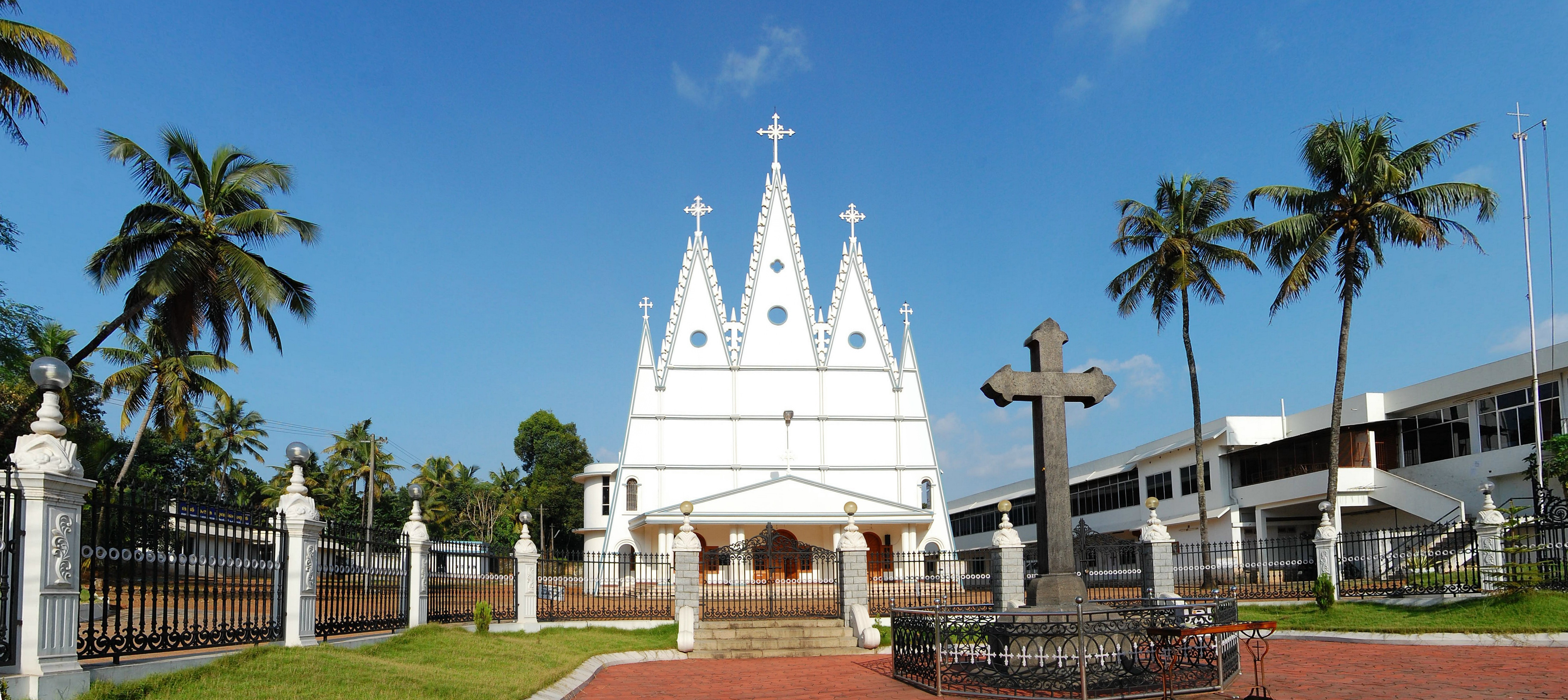 Bethel Suloko Jacobite Syrian Church. Perumbavoor; Kerala; India